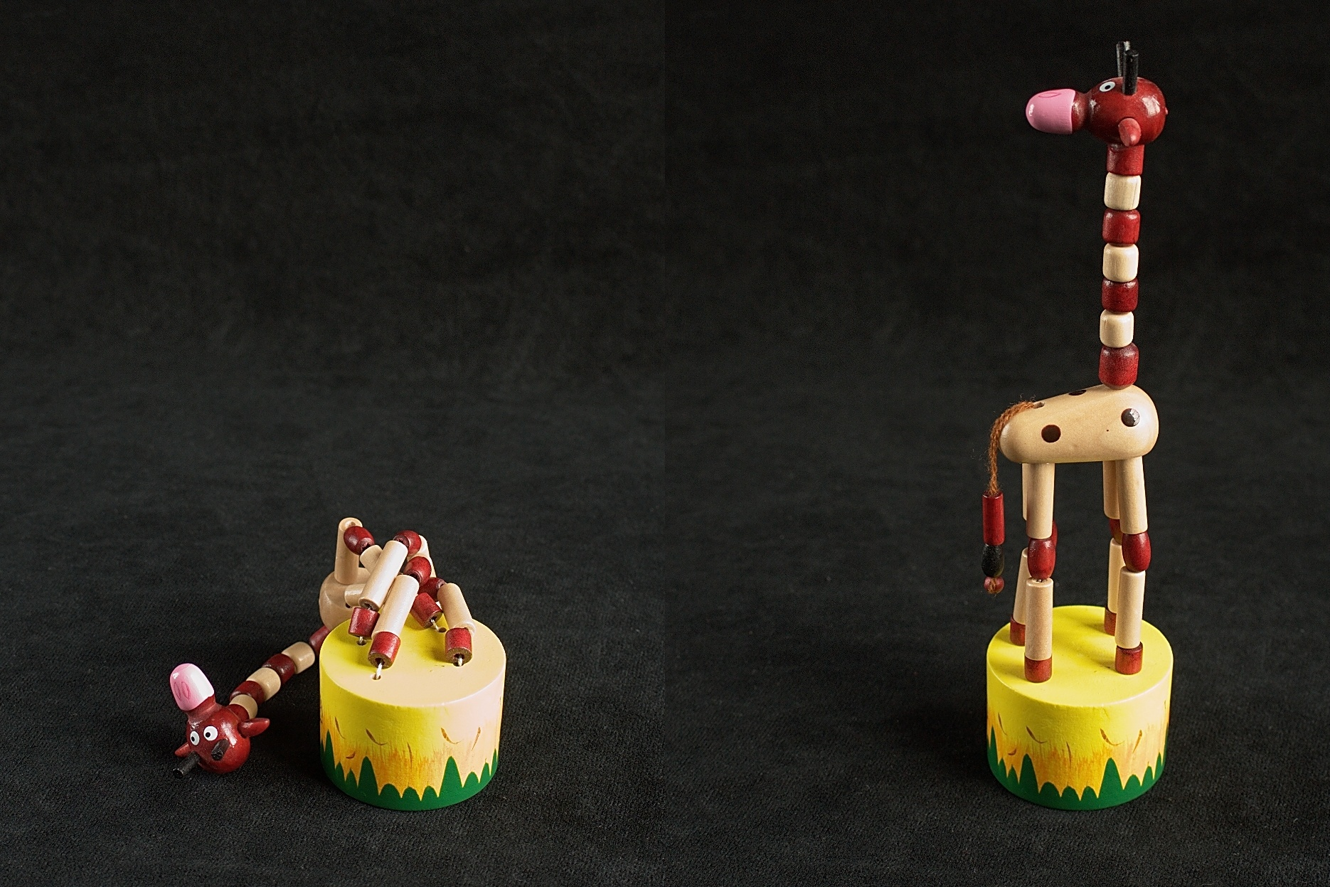 Push puppet giraffe. Left: strings strained (plate internally fixated - not visible). Right: strings released.